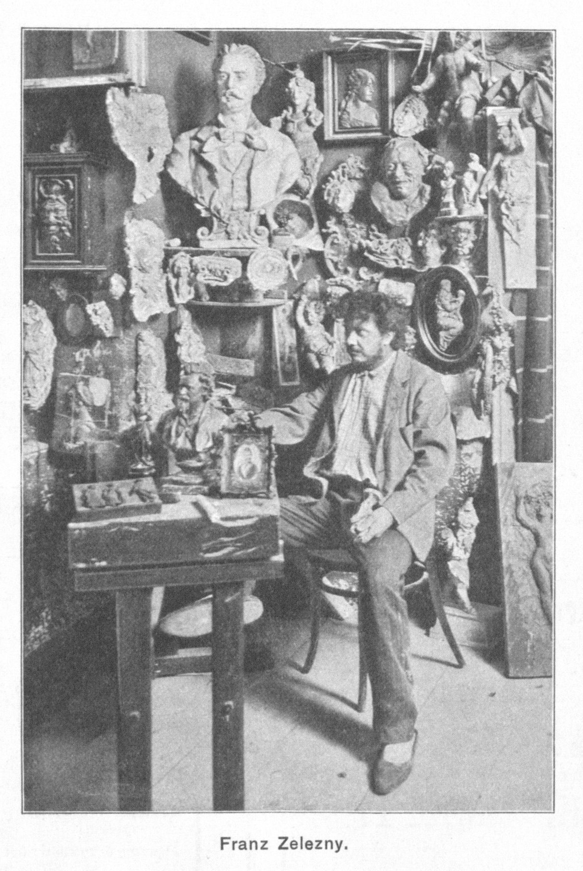 Portrait of Franz Zelezny (1866-1932), Austrian sculptor, in his studio.